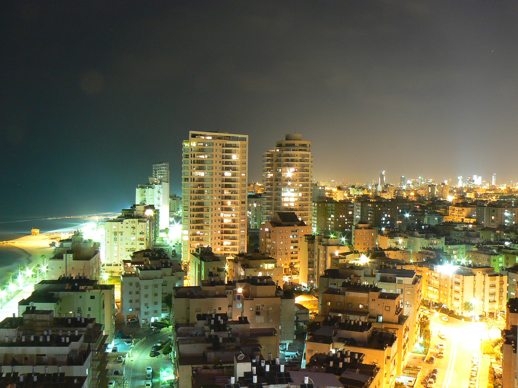 Taken from Hotel Mercure, Bat-Yam, 17th floor.